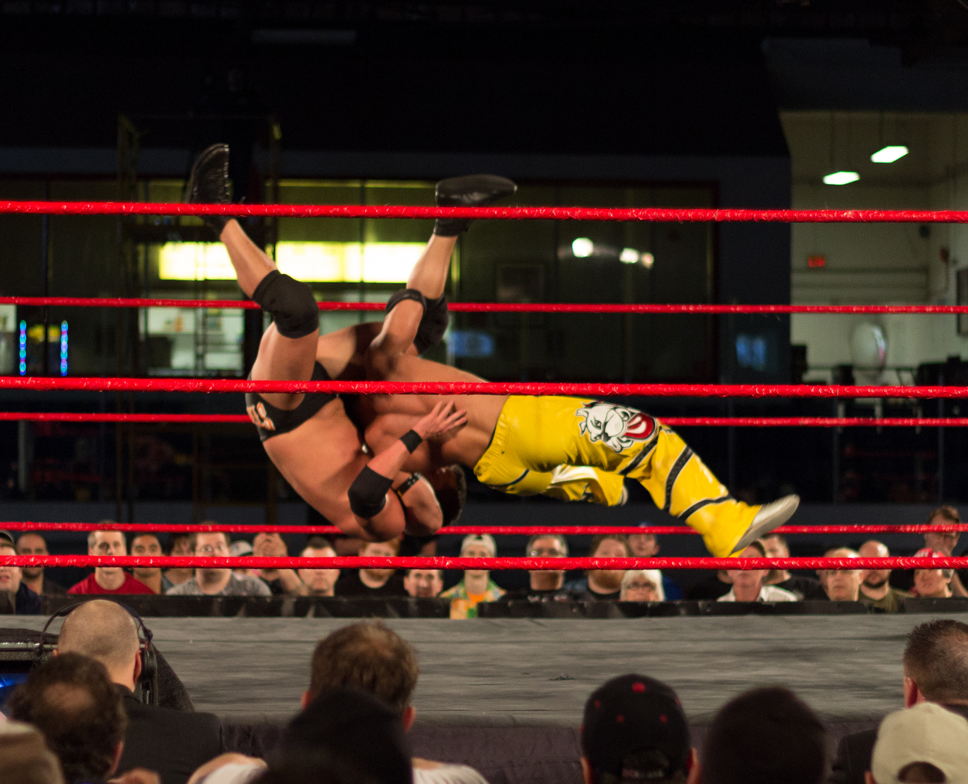 Taiji Ishimori executing a death valley driver on Roderick Strong at the Ring of Honor tapings held at the Ted Reeve Arena in Toronto.